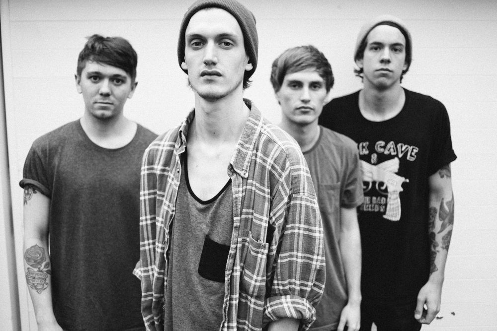 Promotional photo of Heights taken in May 2012